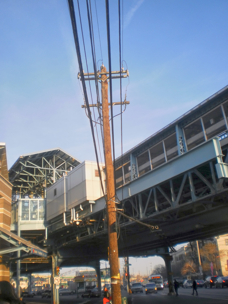 entrance to station